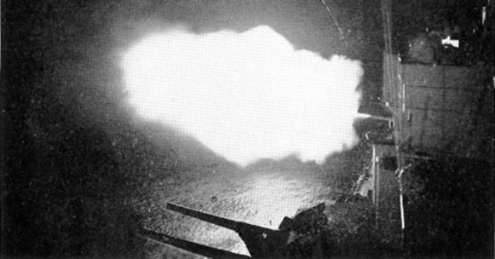 The U.S. Navy light cruiser USS Montpelier (CL-57) main battery firing in the Battle of Empress Augusta Bay, 1-2 November 1943.